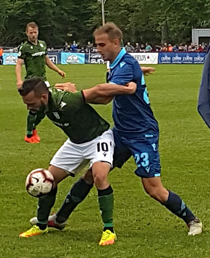 Full Album: HFX Wanderers FC - Cavalry FC 06/19/2019 Sergio Camaro (#10, Cavalry FC) disputing the ball with Matthew Arnone (#23, HFX Wanderers FC) during a Canadian Premier League at Wanderers Grounds in Halifax, Nova Scotia, Canada, on June 19, 2019.